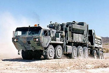 M1075 Palletized Loading System (PLS) with M1076 trailer HEMTT and PLS are not the same